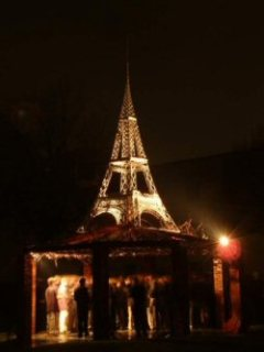 Author: Dewet Burger Source: Personally Photographed